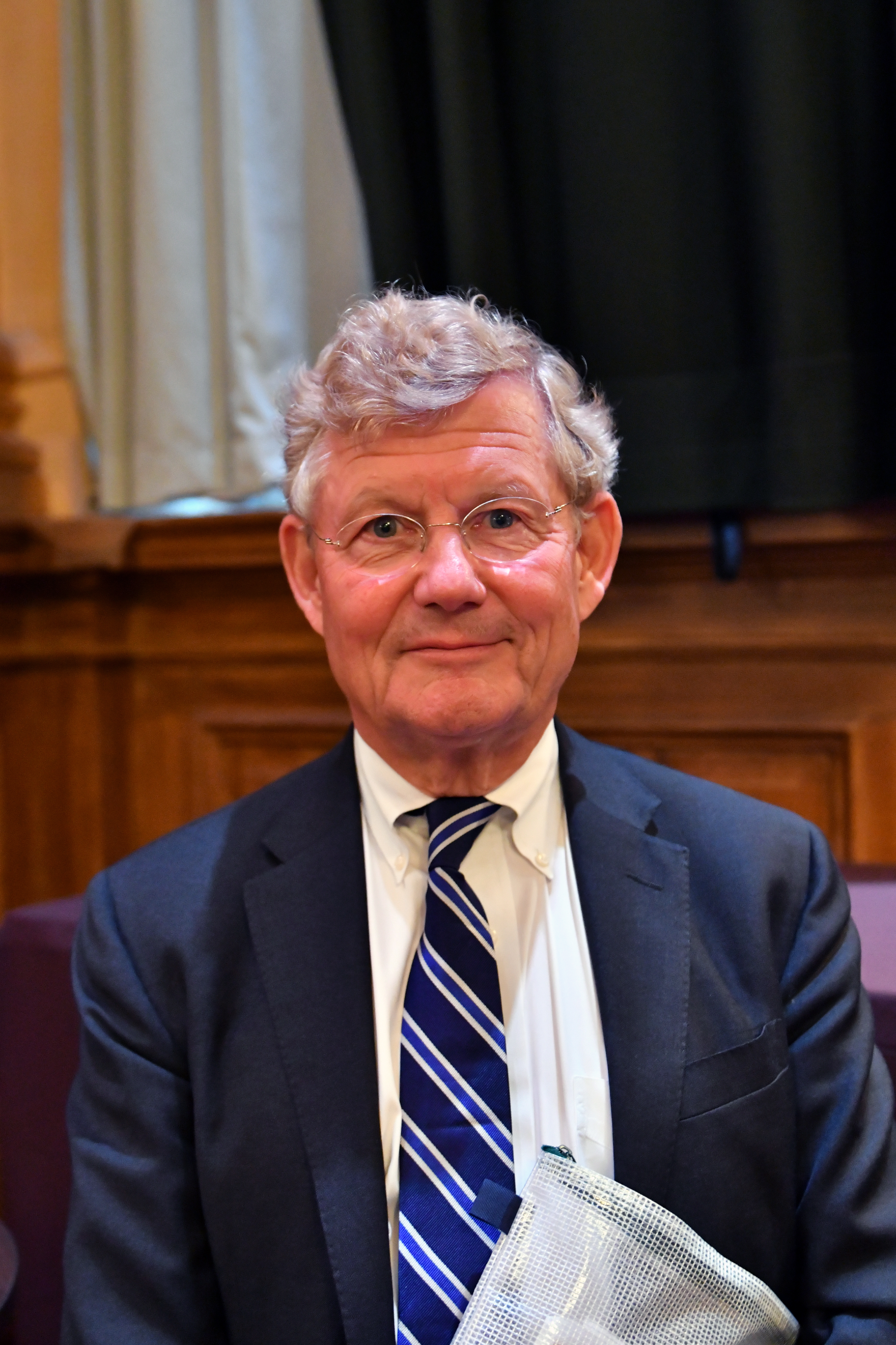 Jacob Wallenberg at History Marketing Summit, September 6, 2018, in Stockholm.